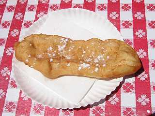 Fried dough Photograph taken at Feast of St. Joseph's, Malden, MA on 6/13/2004. Copyright ©2004 Daniel P. B. Smith. Licensed under the terms of the Wikipedia copyright.